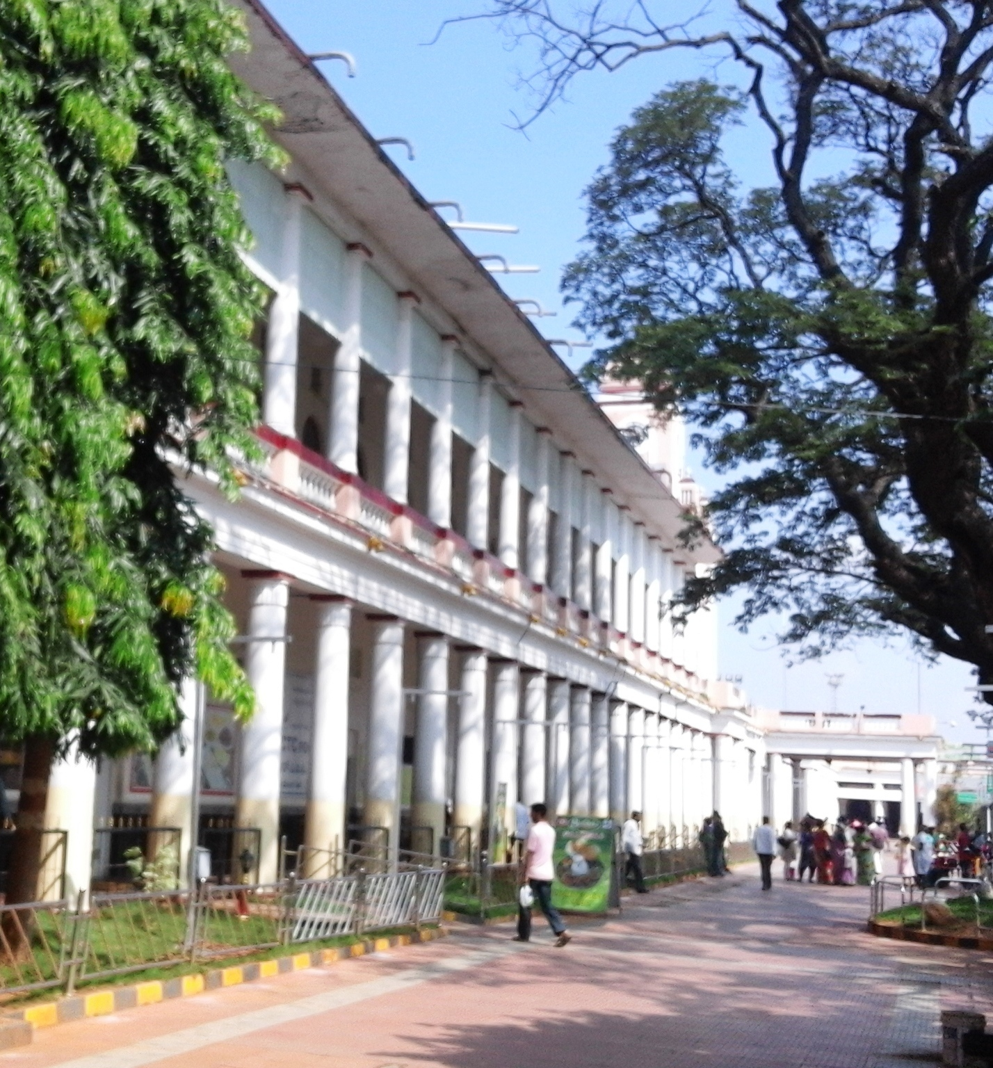 Mysore Railway Station